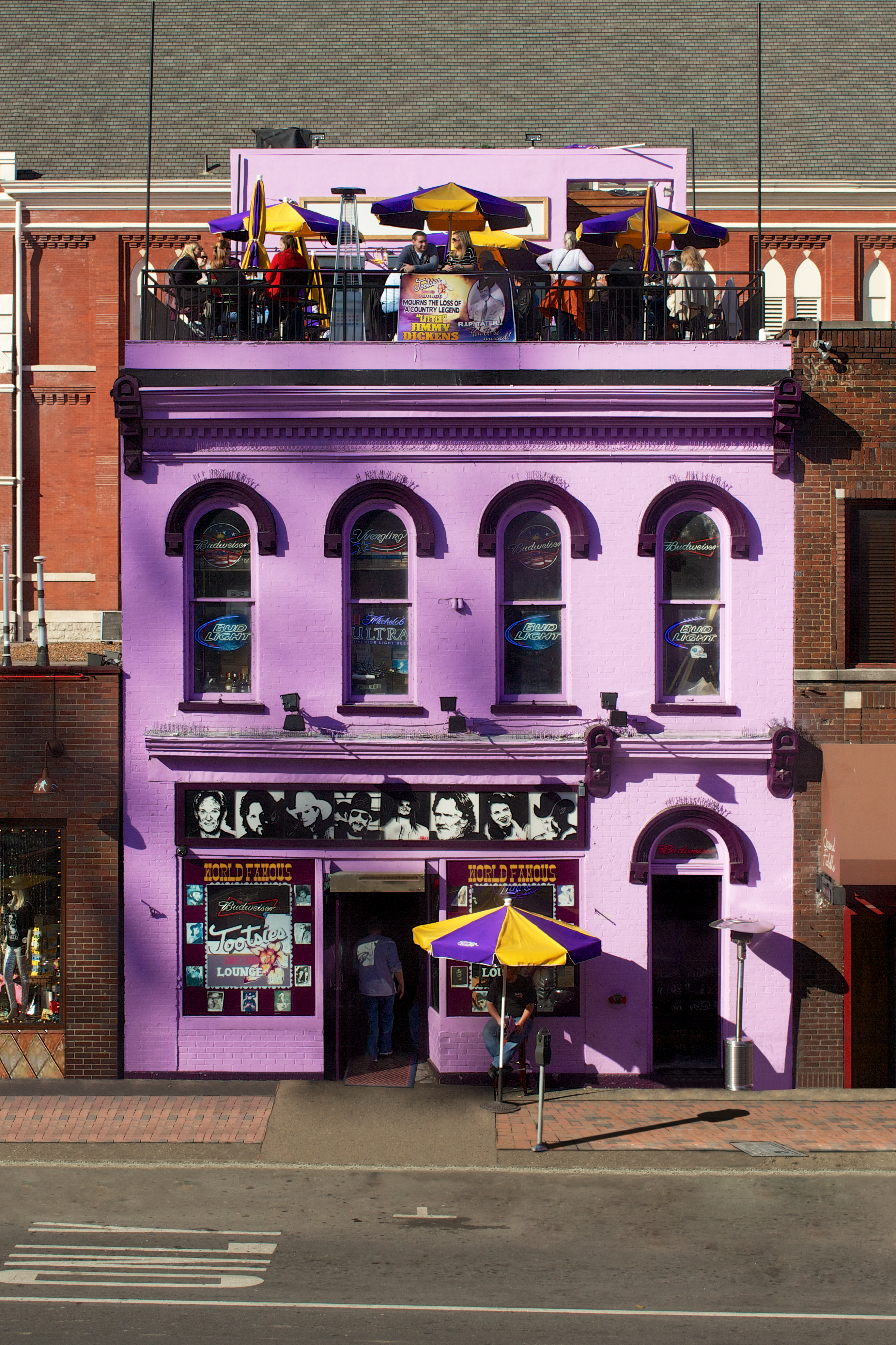 World Famous Tootsie's Orchid Lounge in Nashville, TN